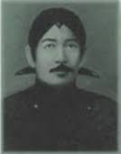 Sultan Hadiwijaya, the first king of Pajang Palace